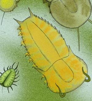 The Chinese trilobite-like organism, Naraoia spinosa, of the Cambrian period.